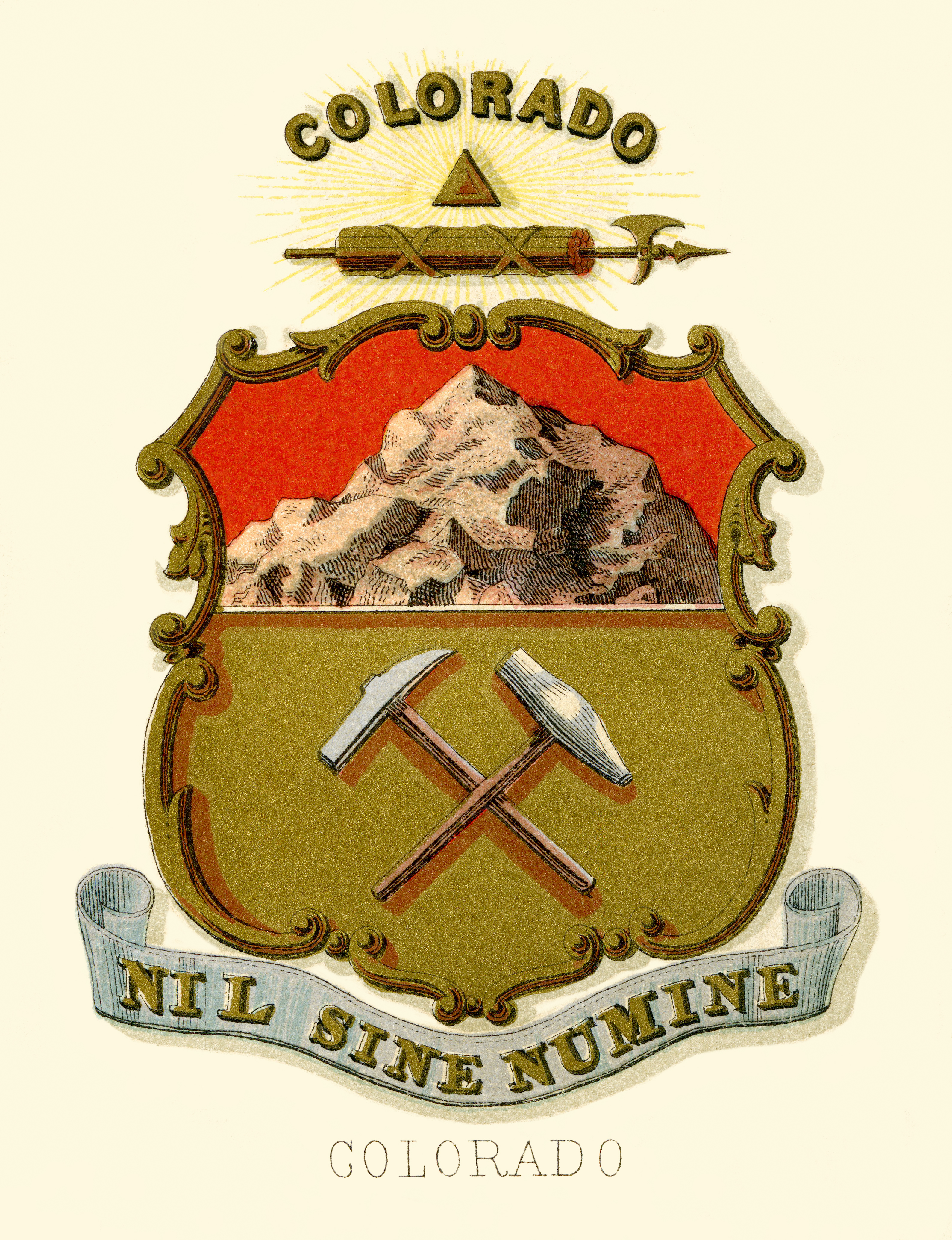 Colorado state coat of arms